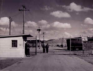 Security Gate, Sandia Base, New Mexico, late 1940s.